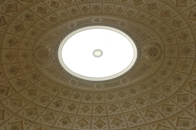 Domed ceiling of the Marble Saloon, Stowe House The magnificent domed ceiling of the Marble Saloon was restored between 2003-05.